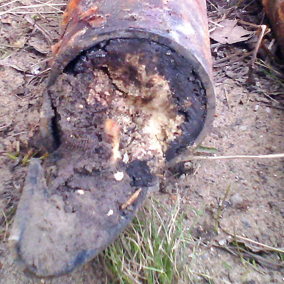 Sewerage in Russia